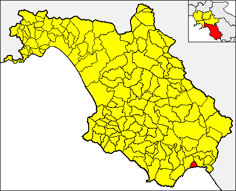 Locator map of the municipality of Ispani (red) within the Province of Salerno